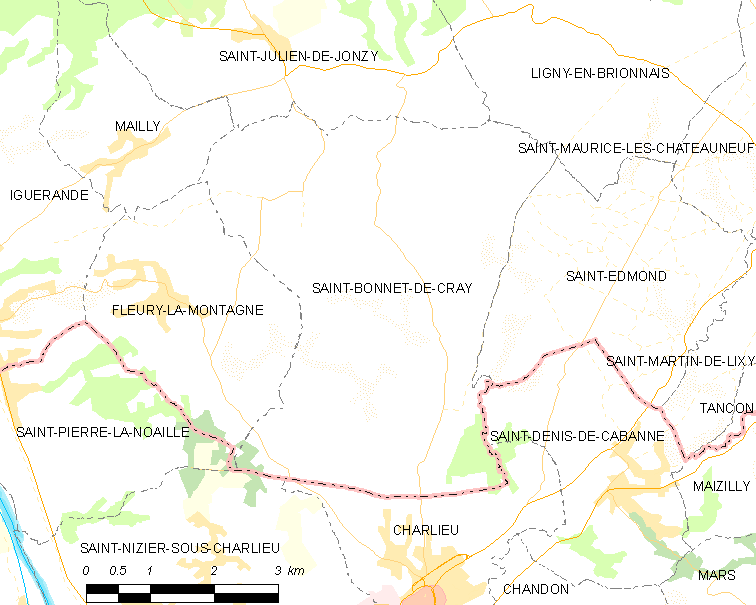 Map of French municipality